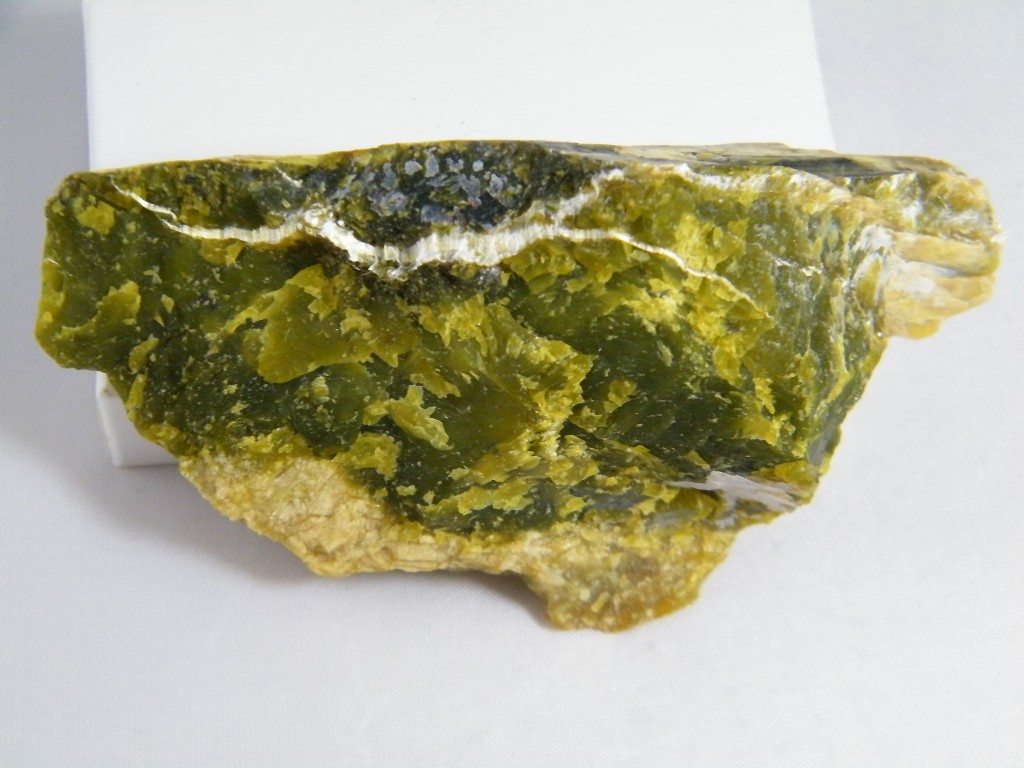 Lizardite, Chrysotile Dimensions: close-up: 1" wide, entire specimen 3.5" x 2" x 2" Locality: Gordon's Crystalline Limestone Quarry, Montville, Morris Co., New Jersey, USA Vivid, deep green and bronze lizardite. The first child photo shows the entire specimen, with a nicely contrastive streak of pearly chrysotile cutting across it. The second child photo shows the reverse side of the specimen. An old collection specimen with a tag dated 1916 from the John Weigand collection.